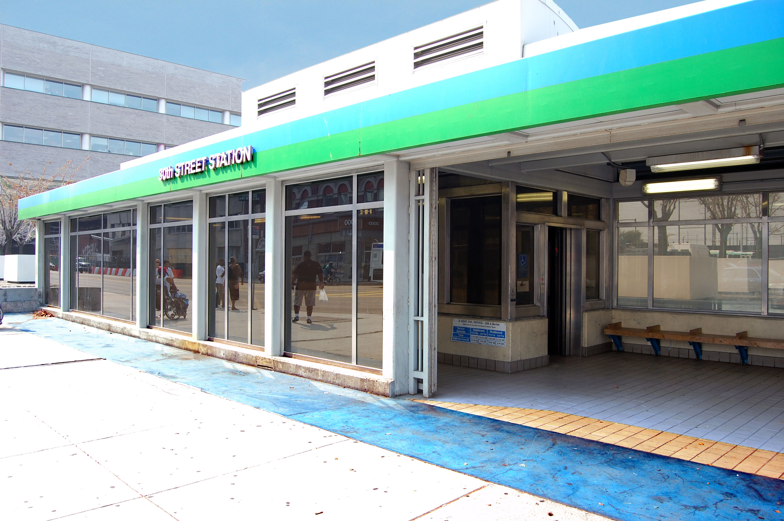 Entrance to the 30th Street subway station in Philadelphia, Pennsylvania.